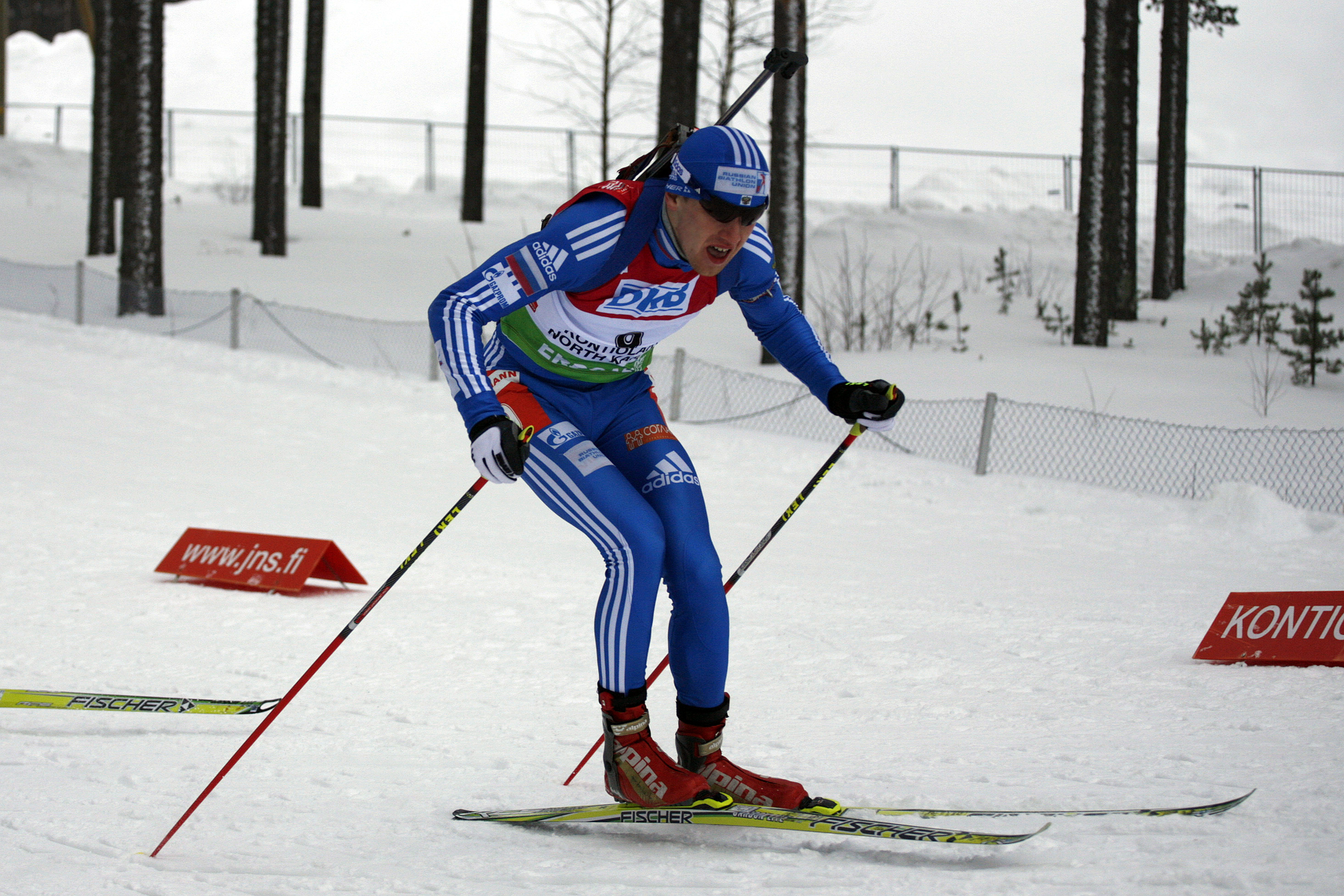 Alexey Volkov. Men 12,5 km pursuit, 14 march 2010, Kontiolahti.